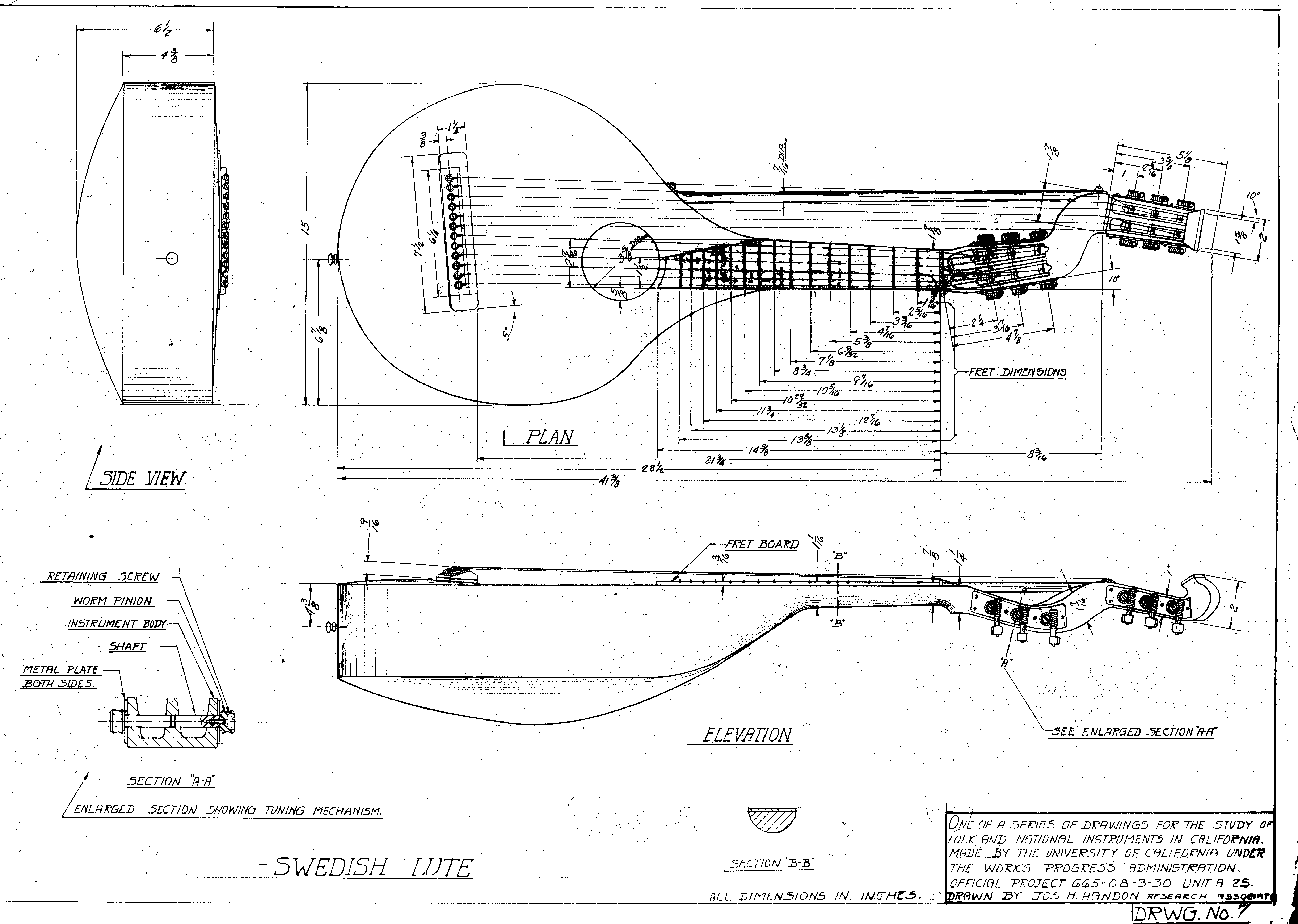 Drawing caption: Swedish lute [harp-lute]. Drawing No. 8.